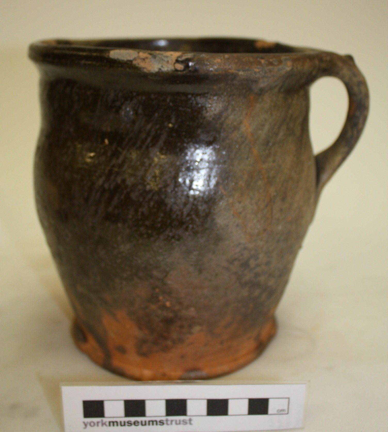 Vessel with one handle and glossy dark brown glaze. Pot 'A' of the three vessels containing the Middleham hoard.